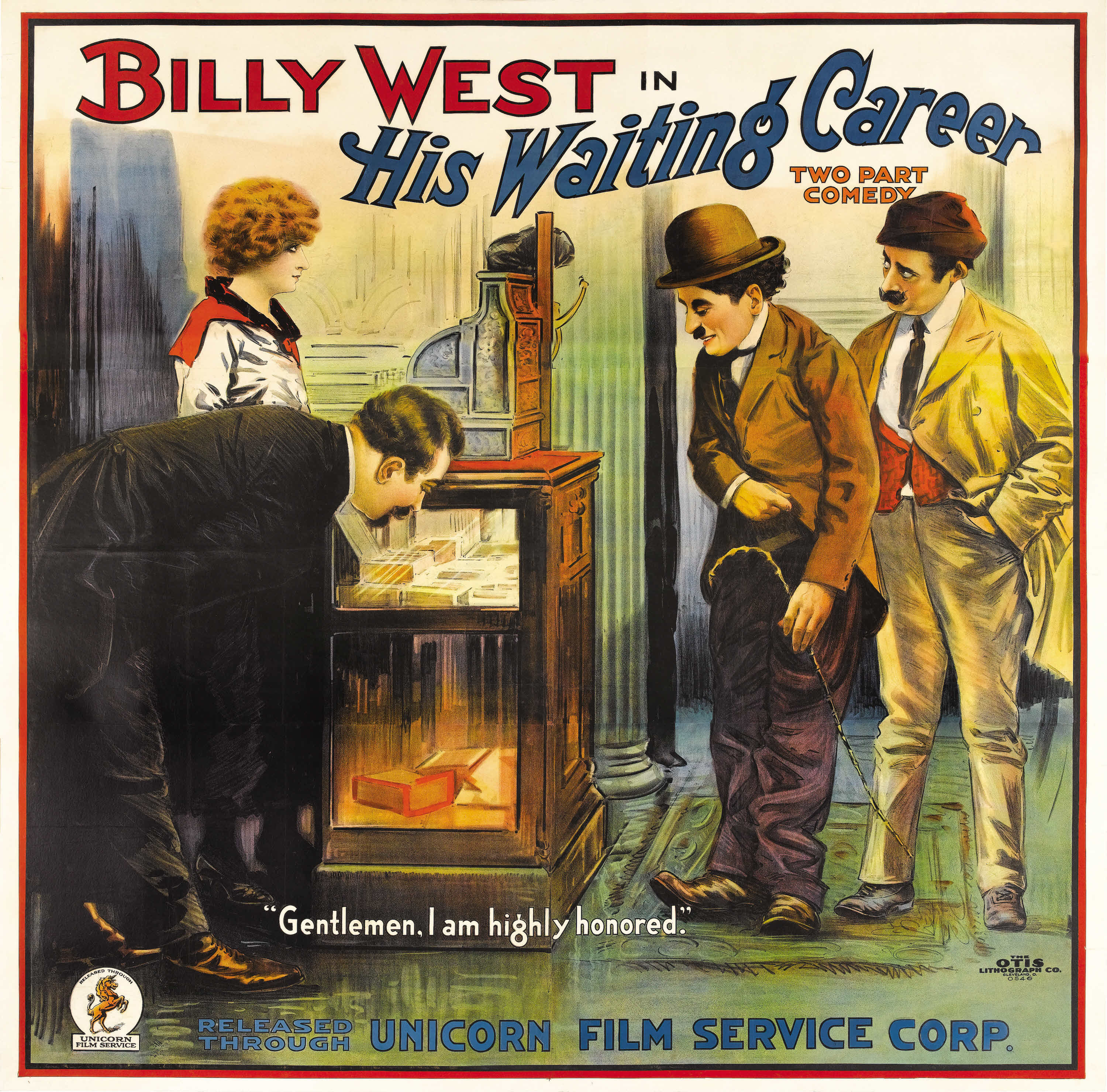 Film poster for the American comedy film His Waiting Career (1916).